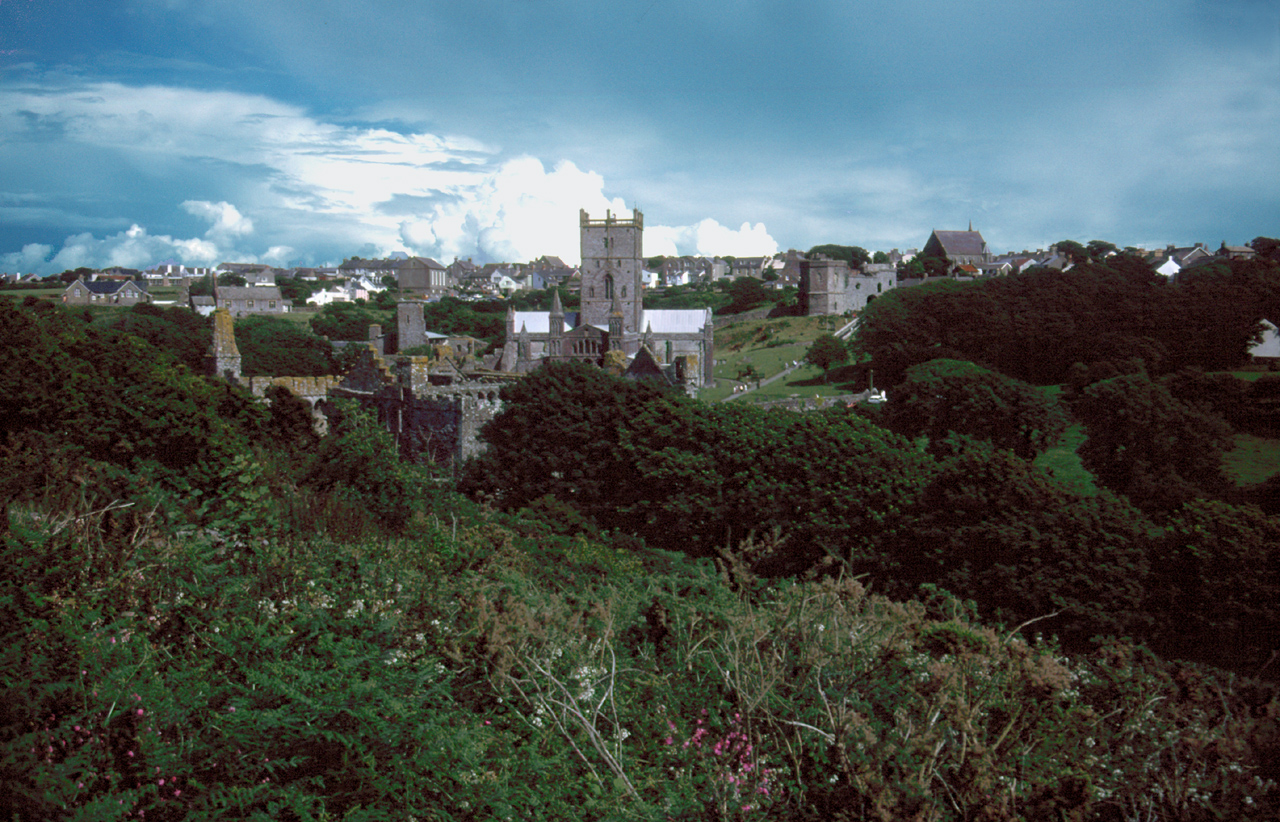 Village of St David's and Cathedral of Saint David's, located in South Wales/GB